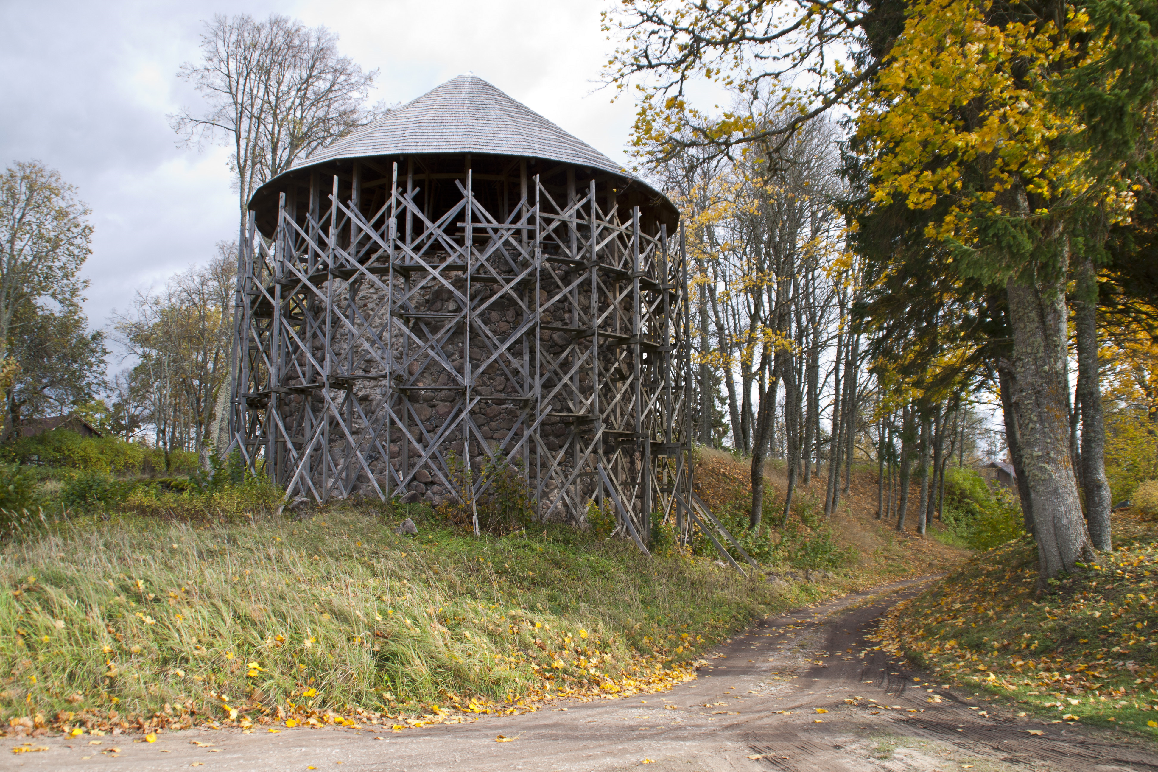 Ruins of Mujāni (Mojahn) castle - White tower